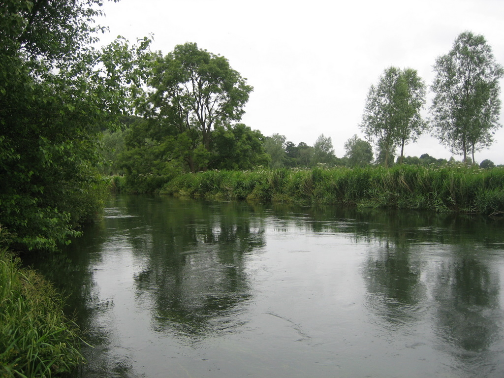 The River Avon taken from the Sandy Balls campsite near Fordingbridge in Hampshire using a Canon Ixus 55.